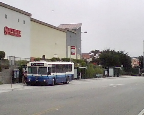 Edgewater Transit Exchange in Sand City, California